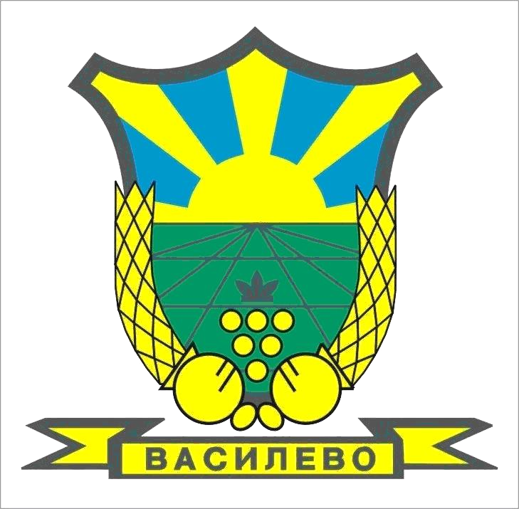 Coat of arms of Vasilevo Municipality, Macedonia.